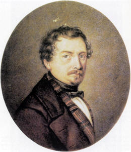 Salvadore Cammarano (portrait)